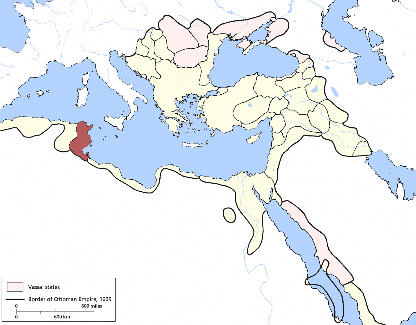 Tunis Eyalet, Ottoman Empire (1609). Source: Encyclopedia of the Ottoman Empire at Google Books By Gábor Ágoston, Bruce Alan Masters